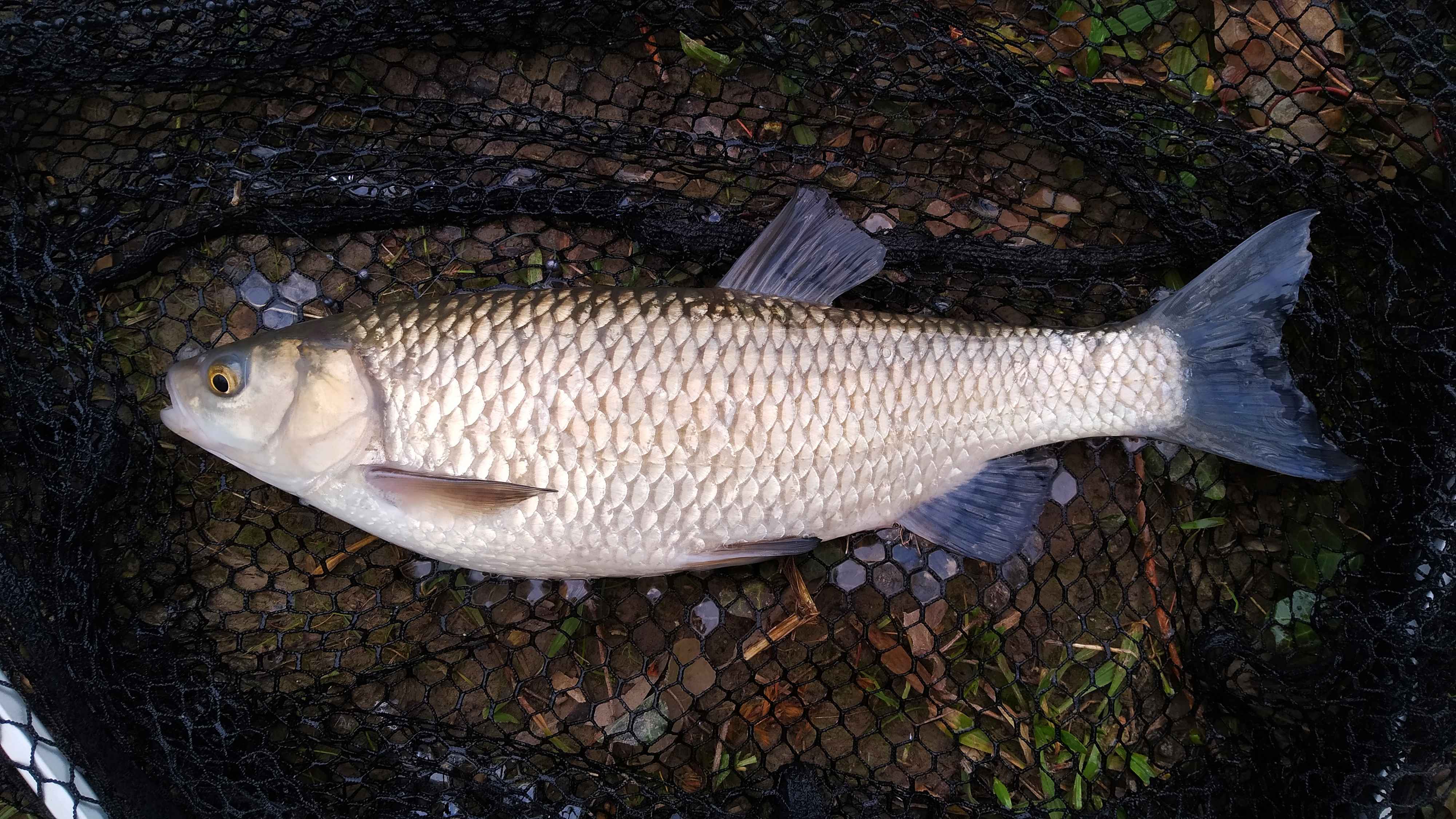 Adult specimen of Squalius squalus, Sile River (Italy), about 1 kg (2,14 lb). Note the greyish pelvic and anal fins